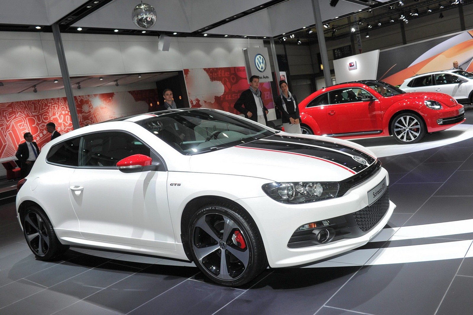 Volkswagen Scirocco GTS at AMI 2012